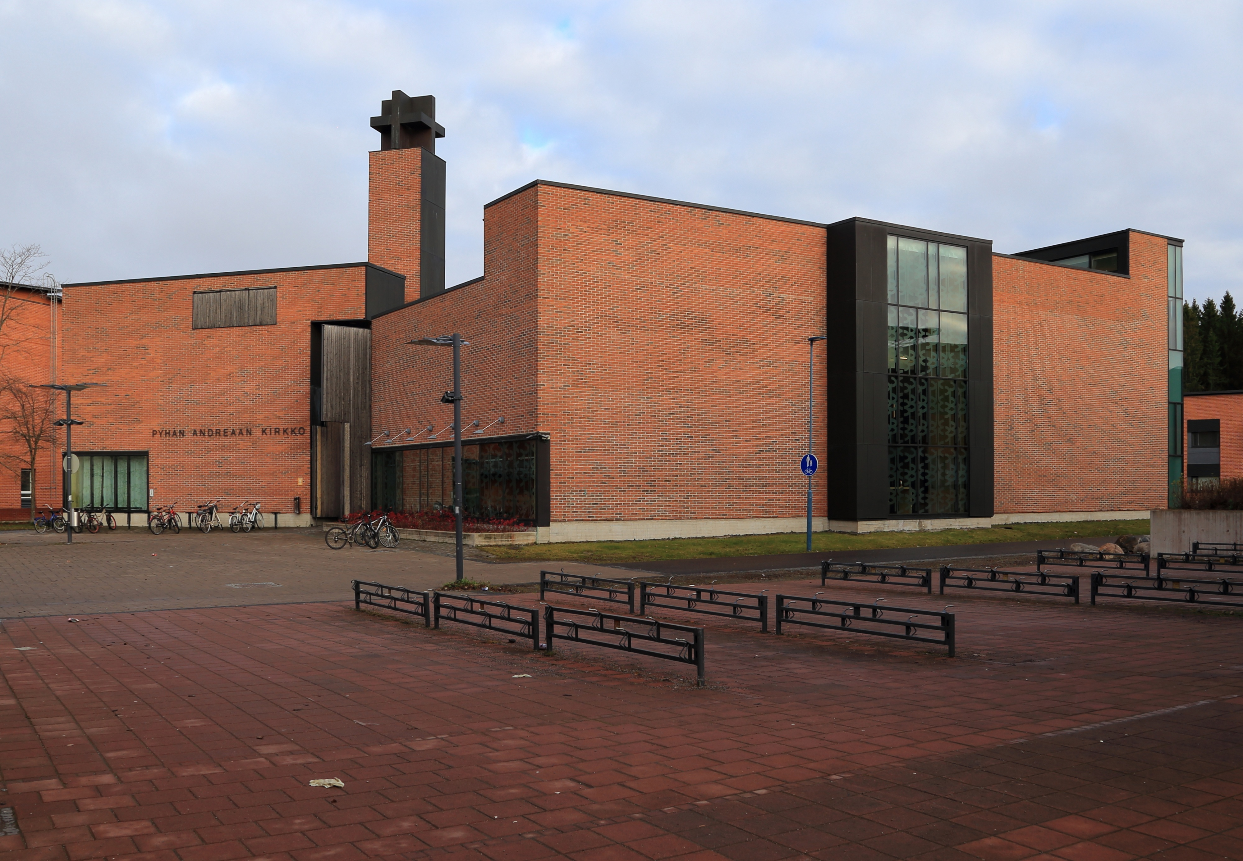 St. Andrew's Church in the Kaakkuri neighbourhood in Oulu.